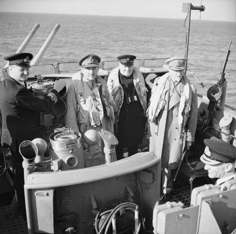 Allied Campaign in North West Europe, 6 June 1944 - 7 May 1945 Prime Minister Winston Churchill on 12 June 1944, on board a destroyer going to France, with Field Marshal Jan Smuts, Field Marshal Sir Alan Brooke and Rear Admiral W E Parry (bottom right).